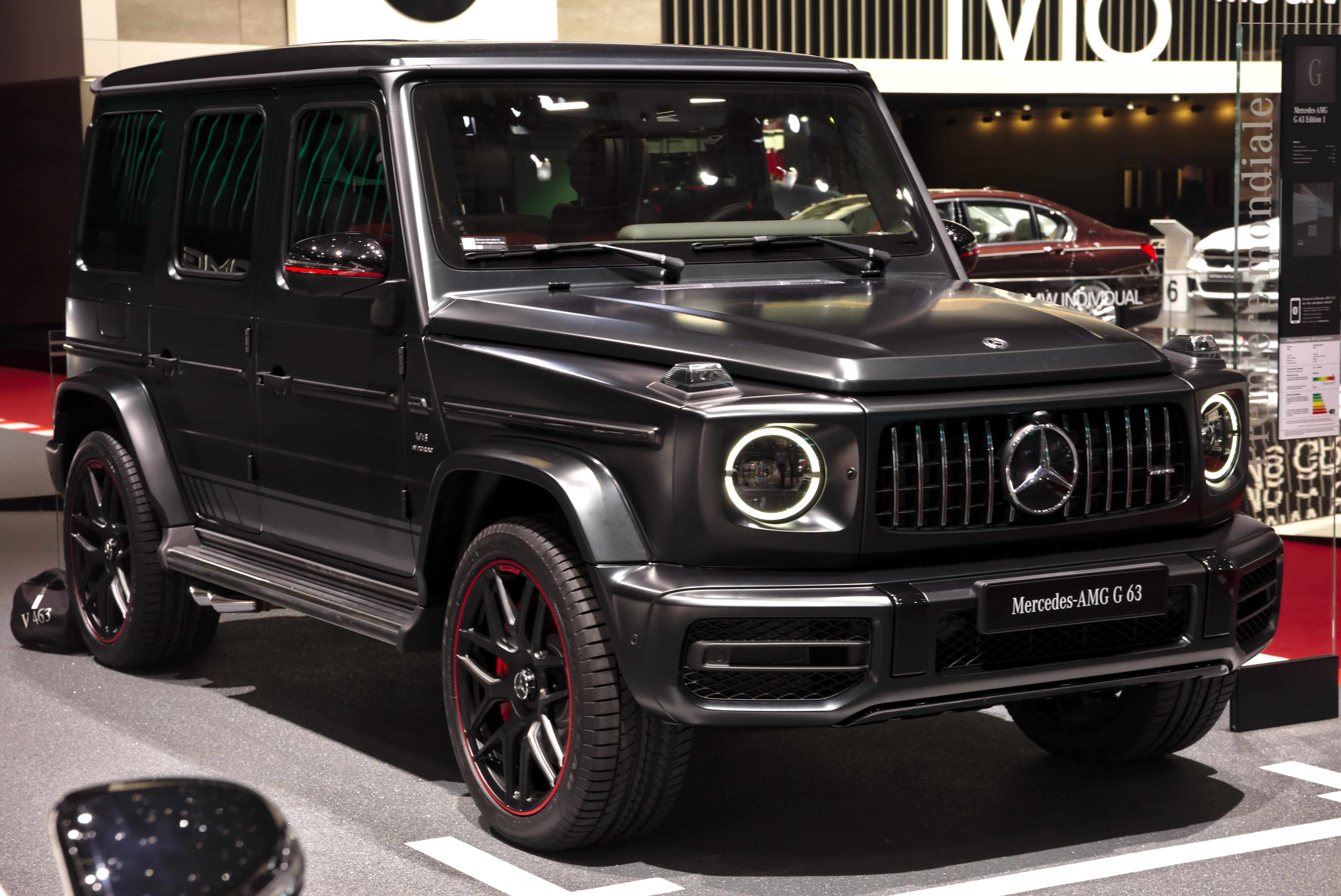 Mercedes-AMG G-Class 63 at Geneva Motor Show 2018